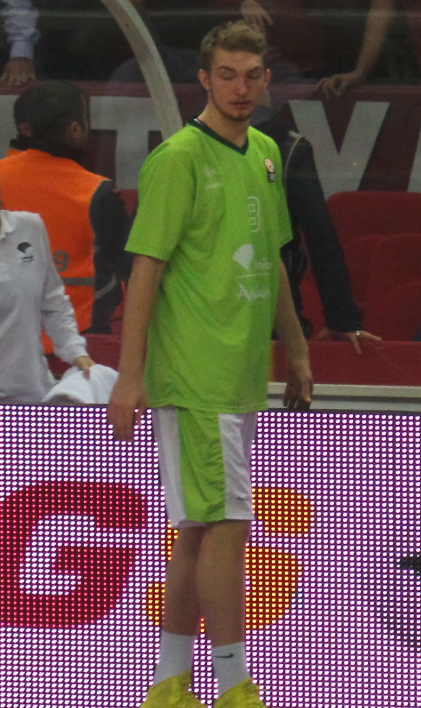 Domantas Sabonis